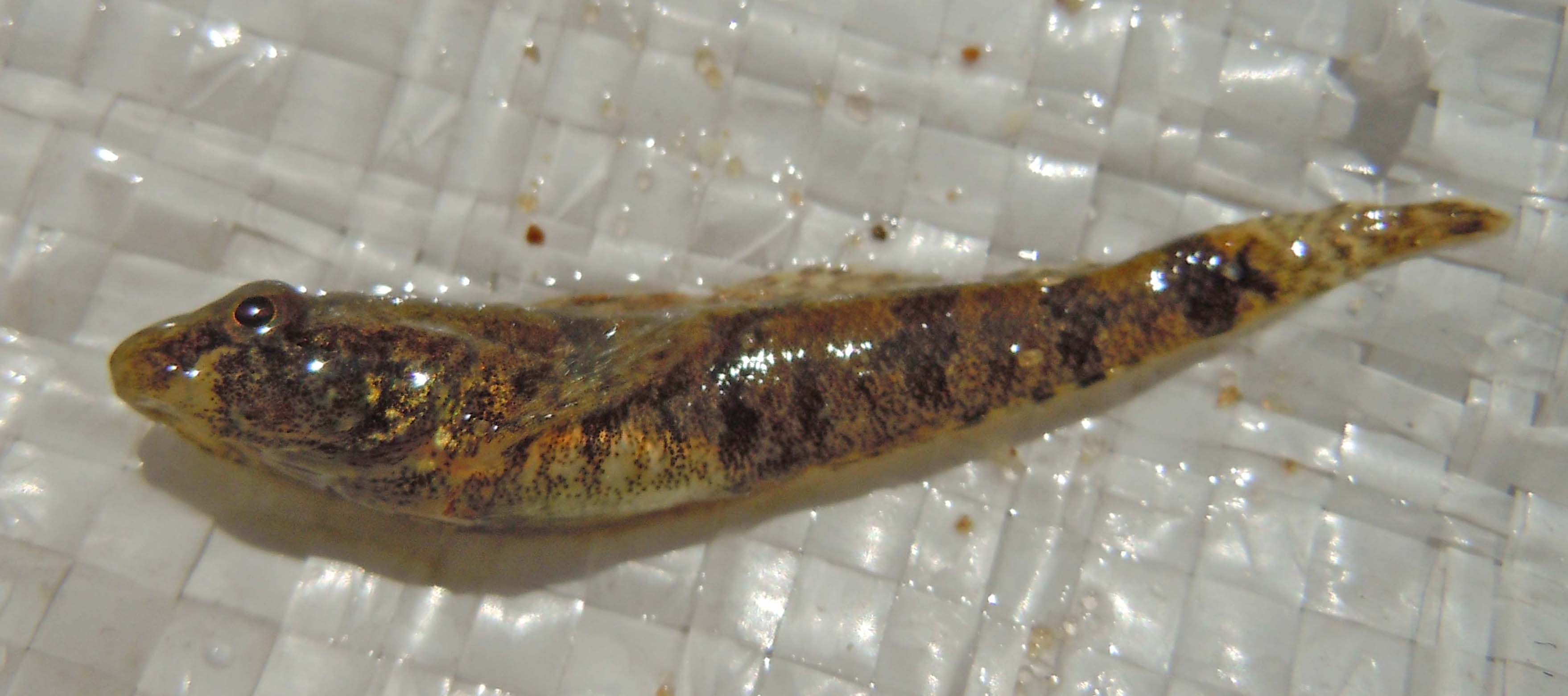 The western tubenose goby (Proterorhinus semilunaris) from the Dniester Estuary, Ukraine